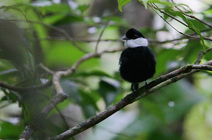 An adult male with ruffs raised. Image taken. Image taken at Heliconias lodge, near Bijagua, Costa Rica.